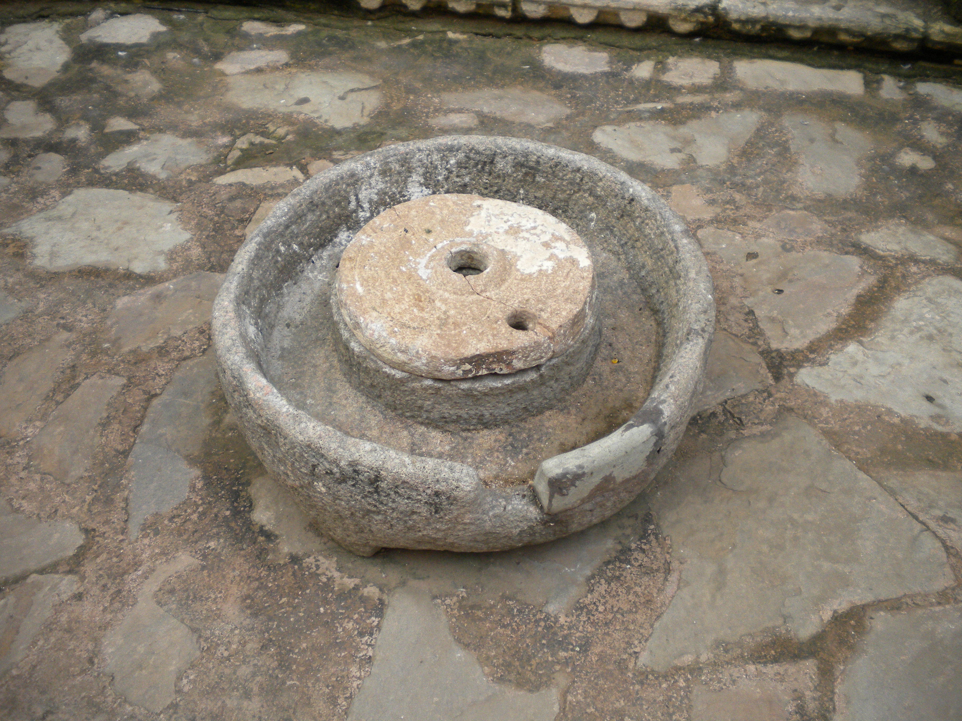 An old North Indian style Grinder displayed at Amber Fort